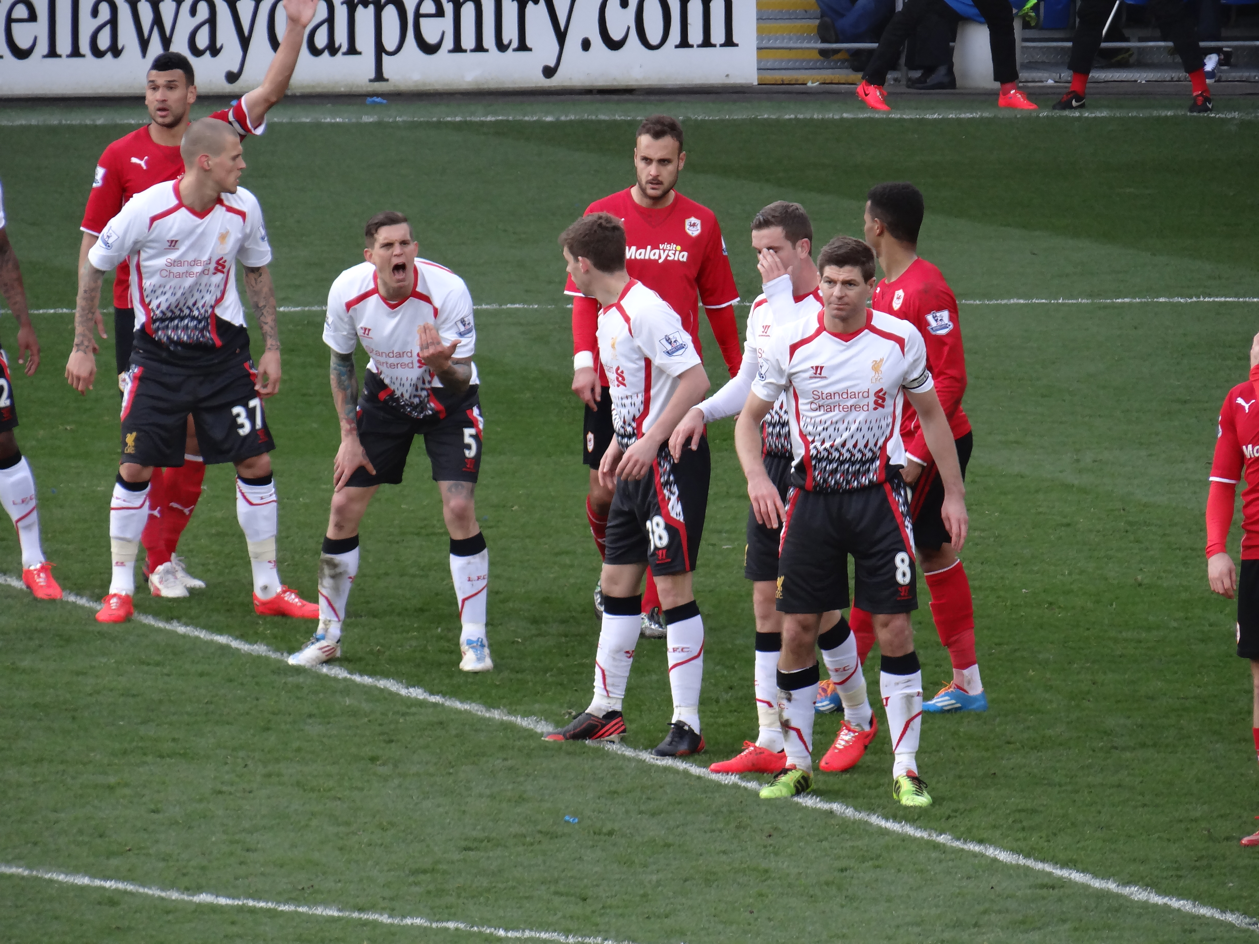 Cardiff City free kick during Premier League match against Liverpool.